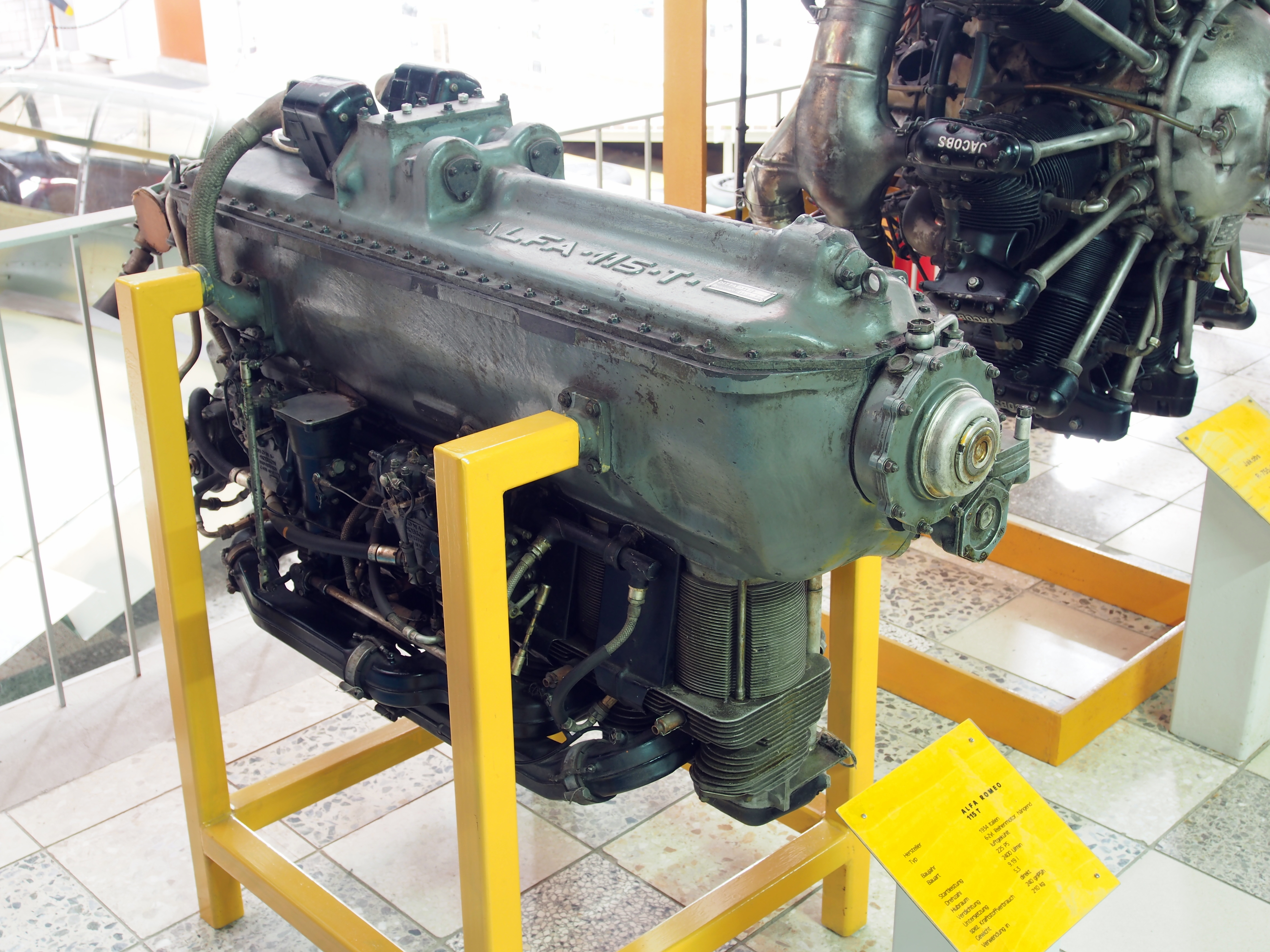 Photographed at Flugausstellung L.+P. Junior, Hermeskeil, Germany.